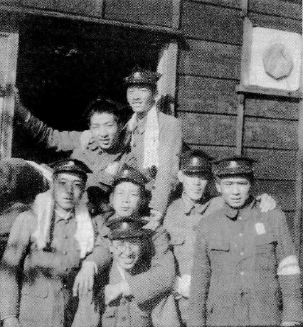 A Japanese judoka, Yoshimi Osawa（right） and his schoolmates of Waseda University.